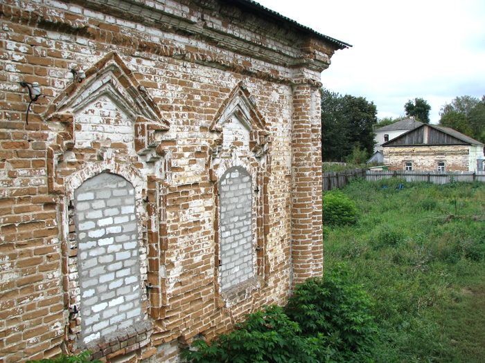 Windows of Masepa’s house